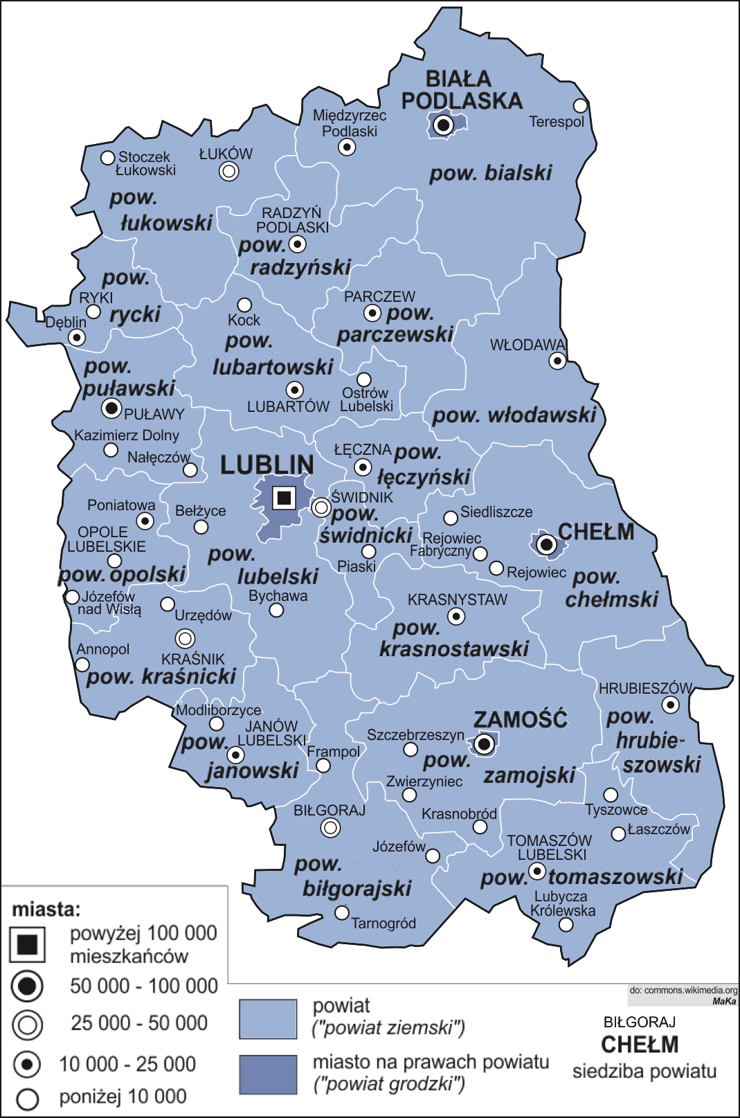 Lublin Voivodeship map